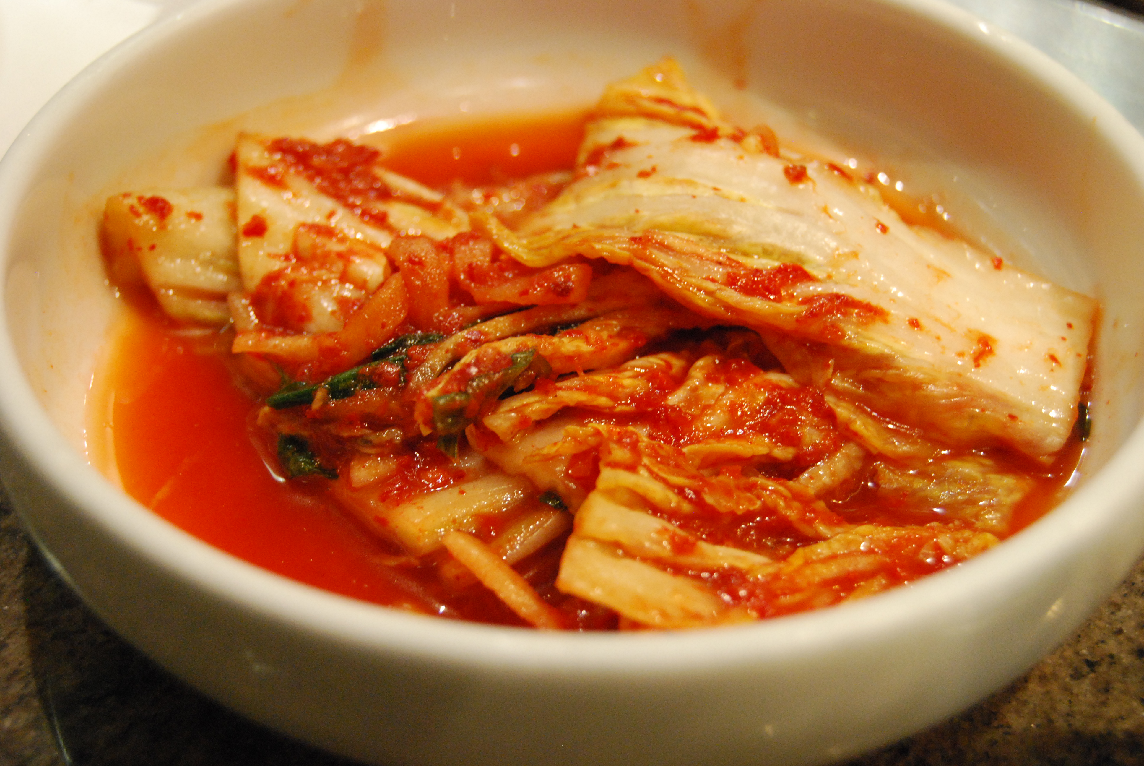 Kimchi, fermented and picked vegetables in Korean cuisine